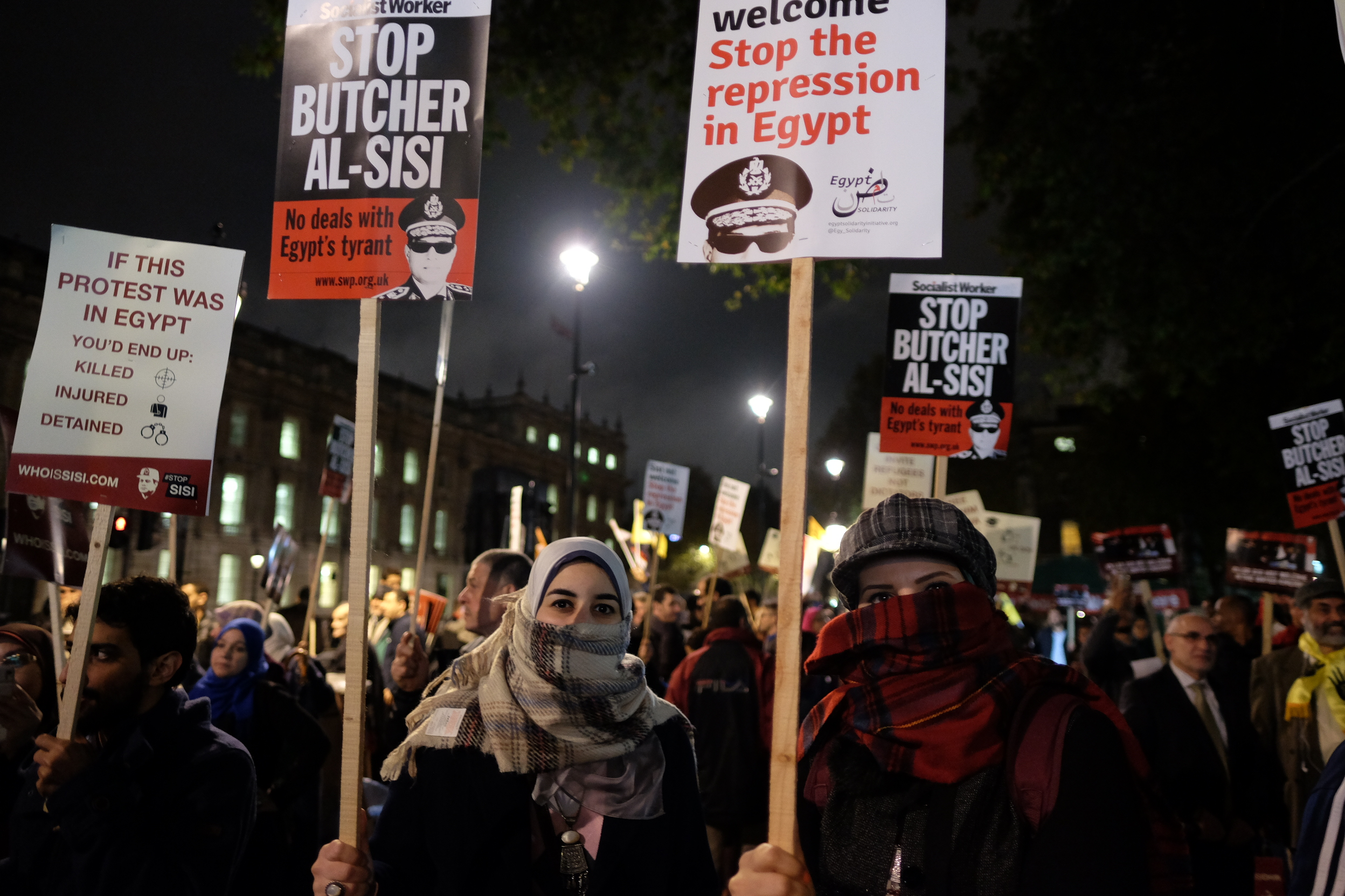 Two women in the foreground were worried that if their identity became known as participators in the anti-Sisi protest, it might harm their relatives in Egypt so they covered their faces.